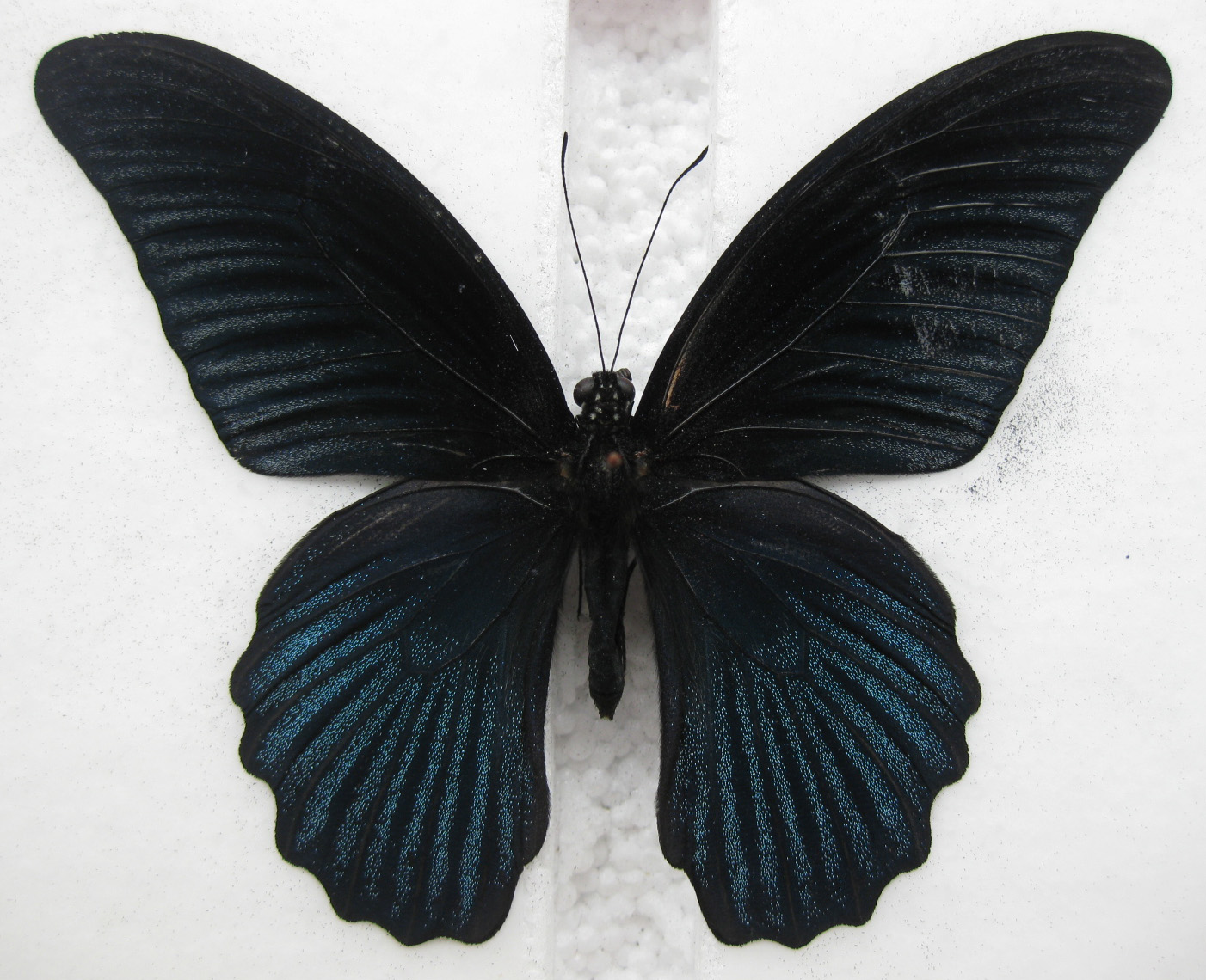 Papilio memnon, picture taken at the Passiflorahoeve in Harskamp, The Netherlands